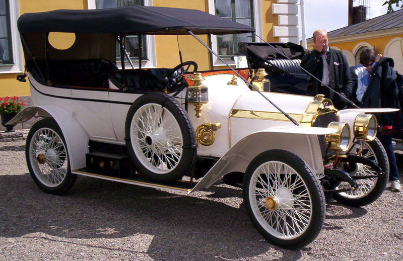 Lorraine-Dietrich 12 HP Torpedo 1912